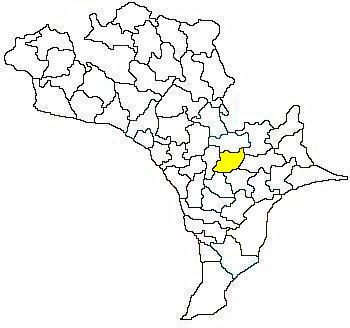 Mandal map of Krishna district showing Vijayawada (rural) mandal (in yellow)